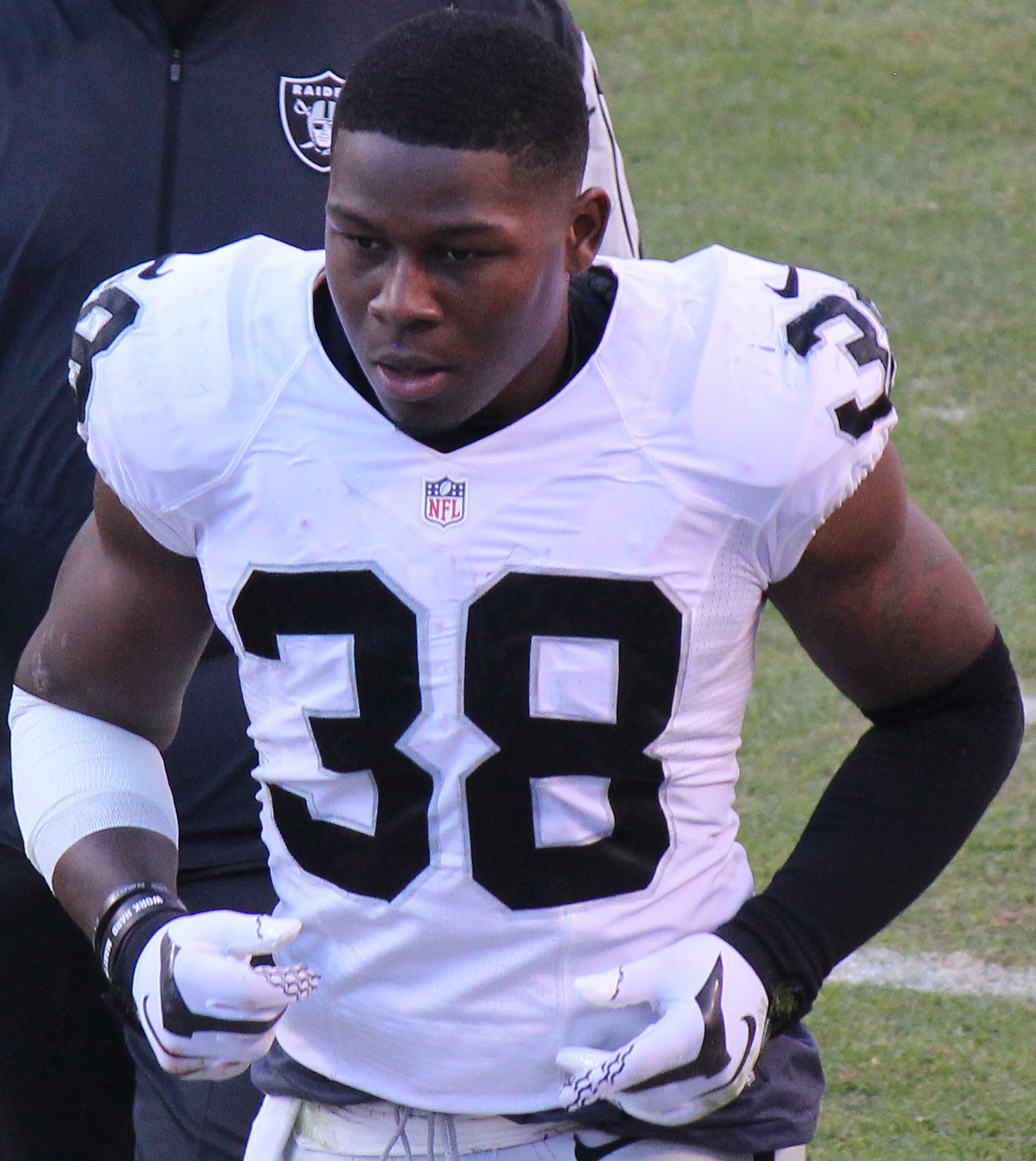 T. J. Carrie, a player on the National Football League.